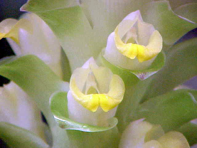 Species: Curcuma aeruginosa Family: Zingiberaceae Image No. 1